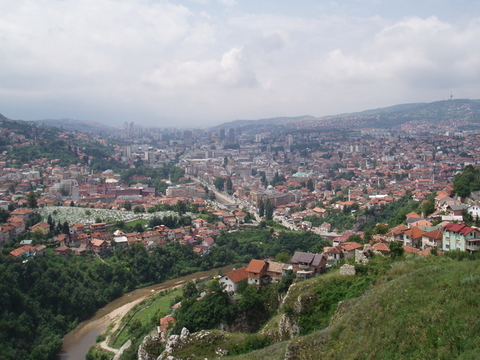 Picture I took myself a few years back from the Bijela tabija fort above Sarajevo.